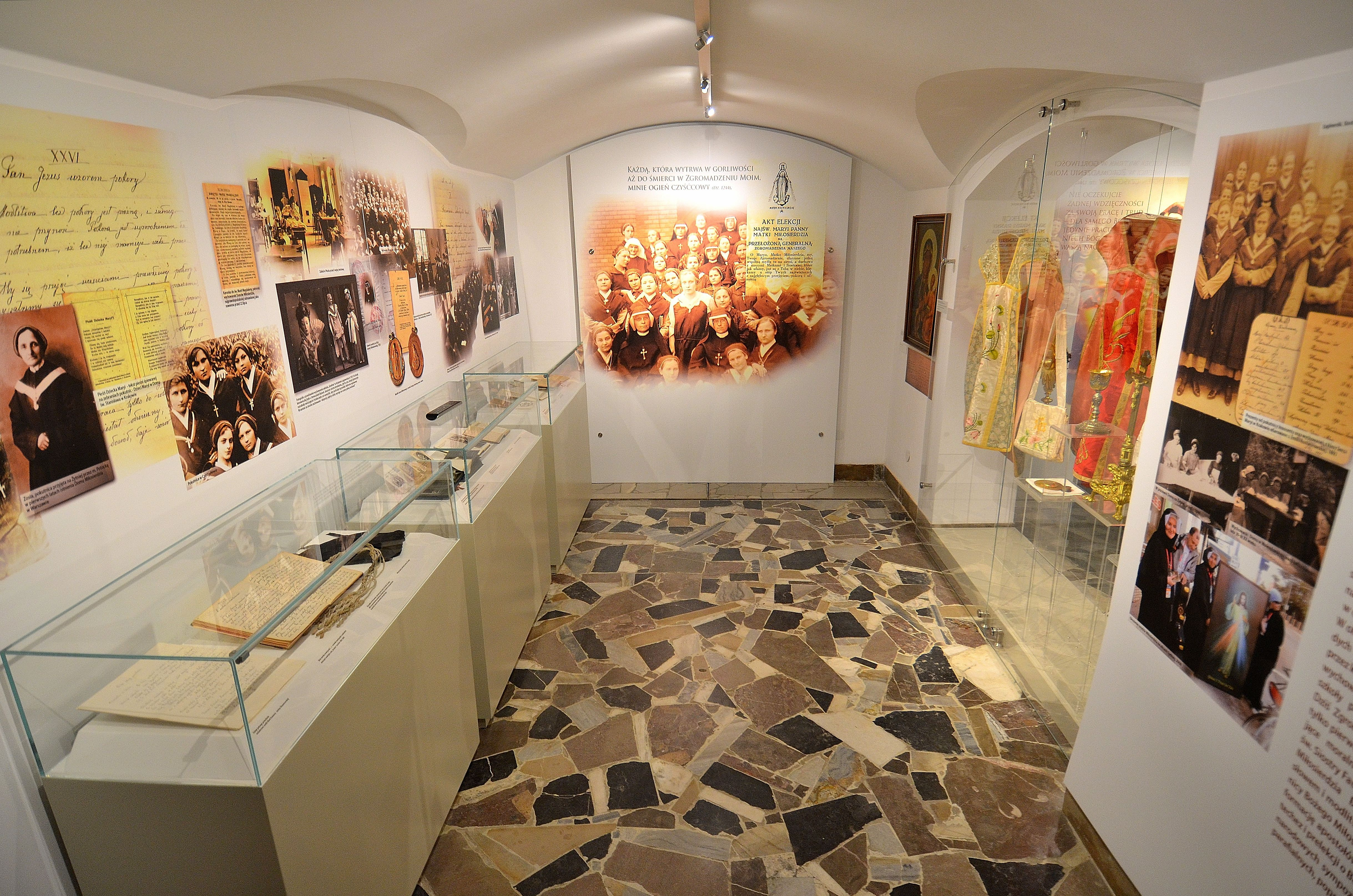 Museum of the Congregation of the Sisters of Our Lady of Mercy at 3/5 Żytnia Street in Warsaw